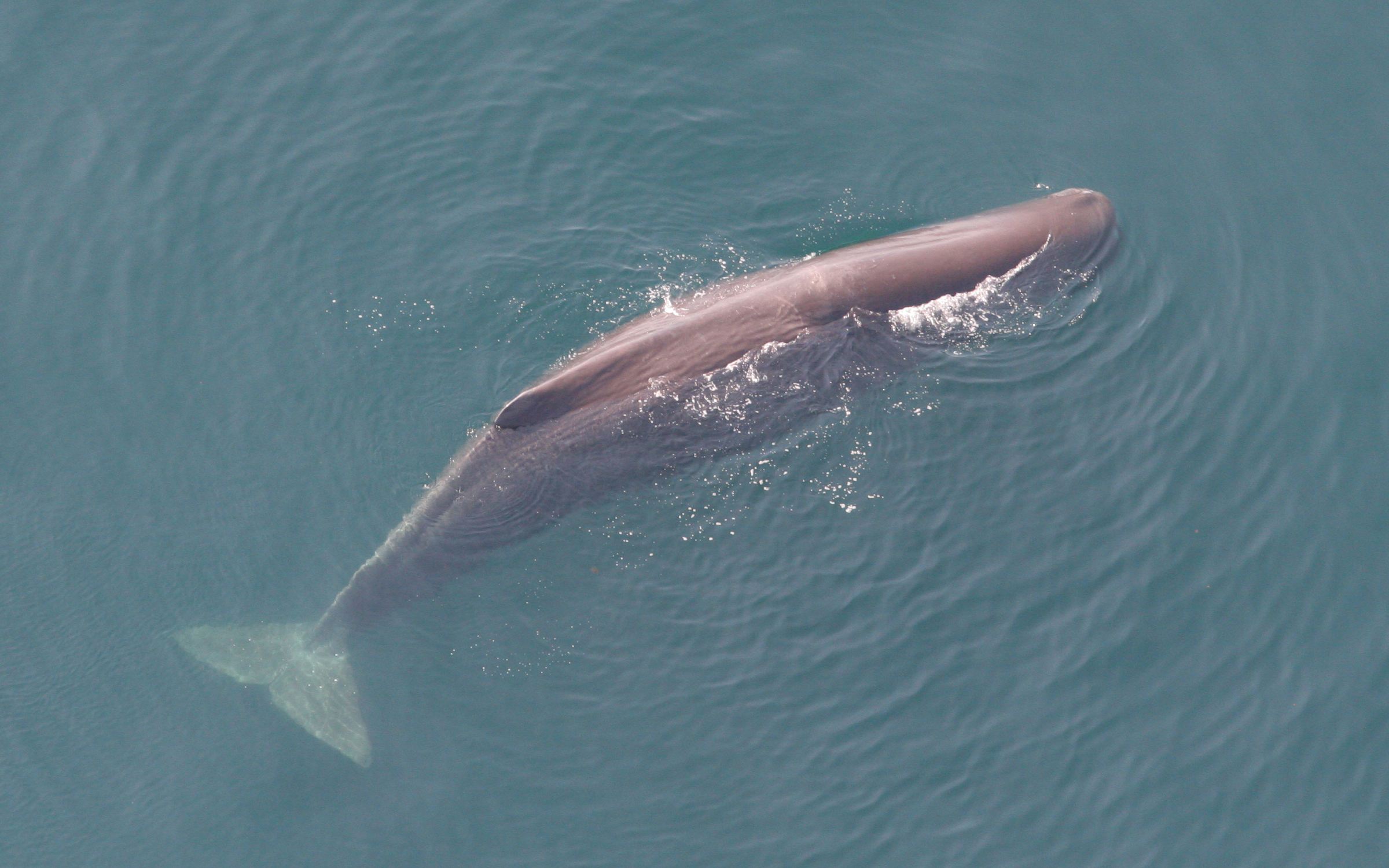 Aerial view of sperm whale (Physeter macrocephalus). The original NOAA image has been modified by cropping.